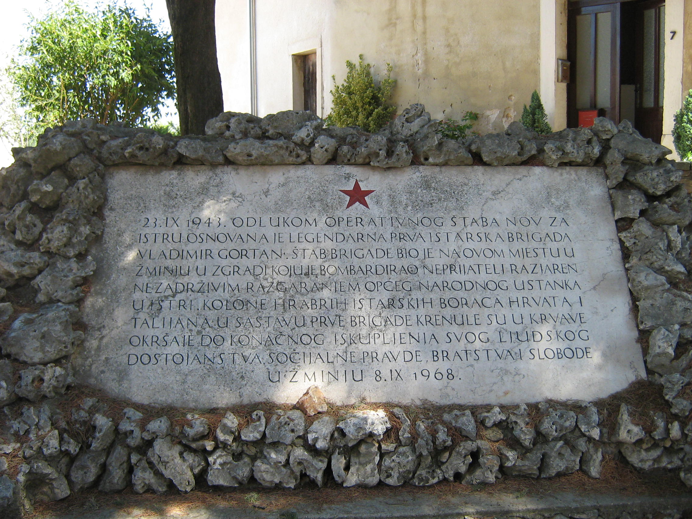 Memorial plaque at hte place of establisment of First Istra Brigade "Vladimir Gortan" in Žminj in September 1943.